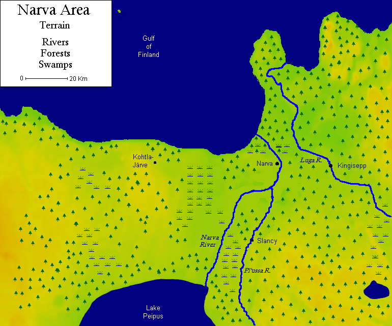 Narva, Estonia area in 1944, showing selected towns and swamps.